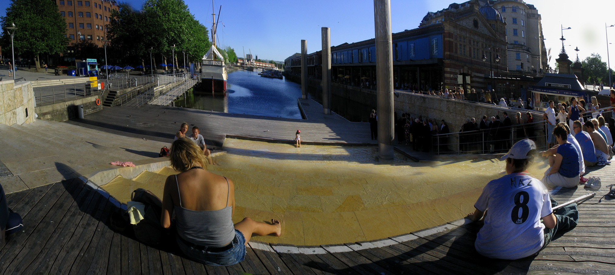 Saint Augustine's Reach in Bristol city centre.